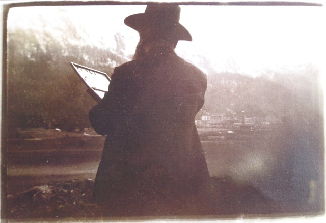 Sigismund Righini is painting at the St. Moritzer lake (Switzerland)